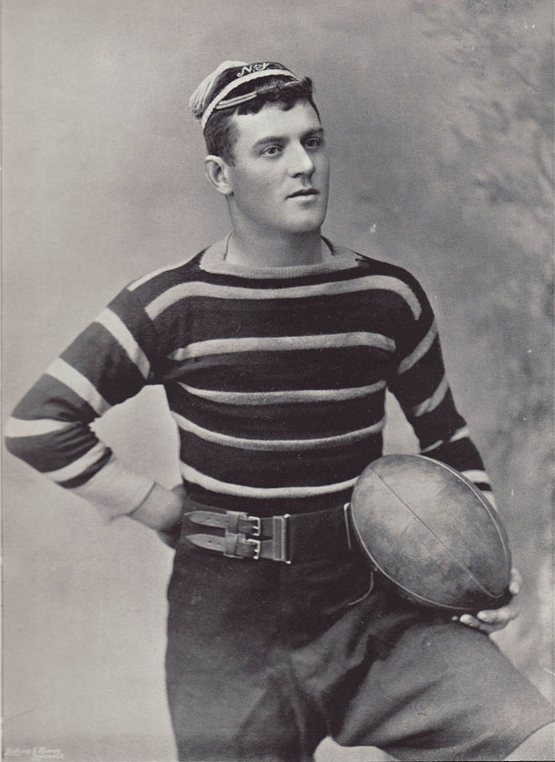 E.Redman, Leicester Tigers captain in 1895, wearing a hat with the inscription "NS" i.e. "North v South" cap (representing North in 1892-93).